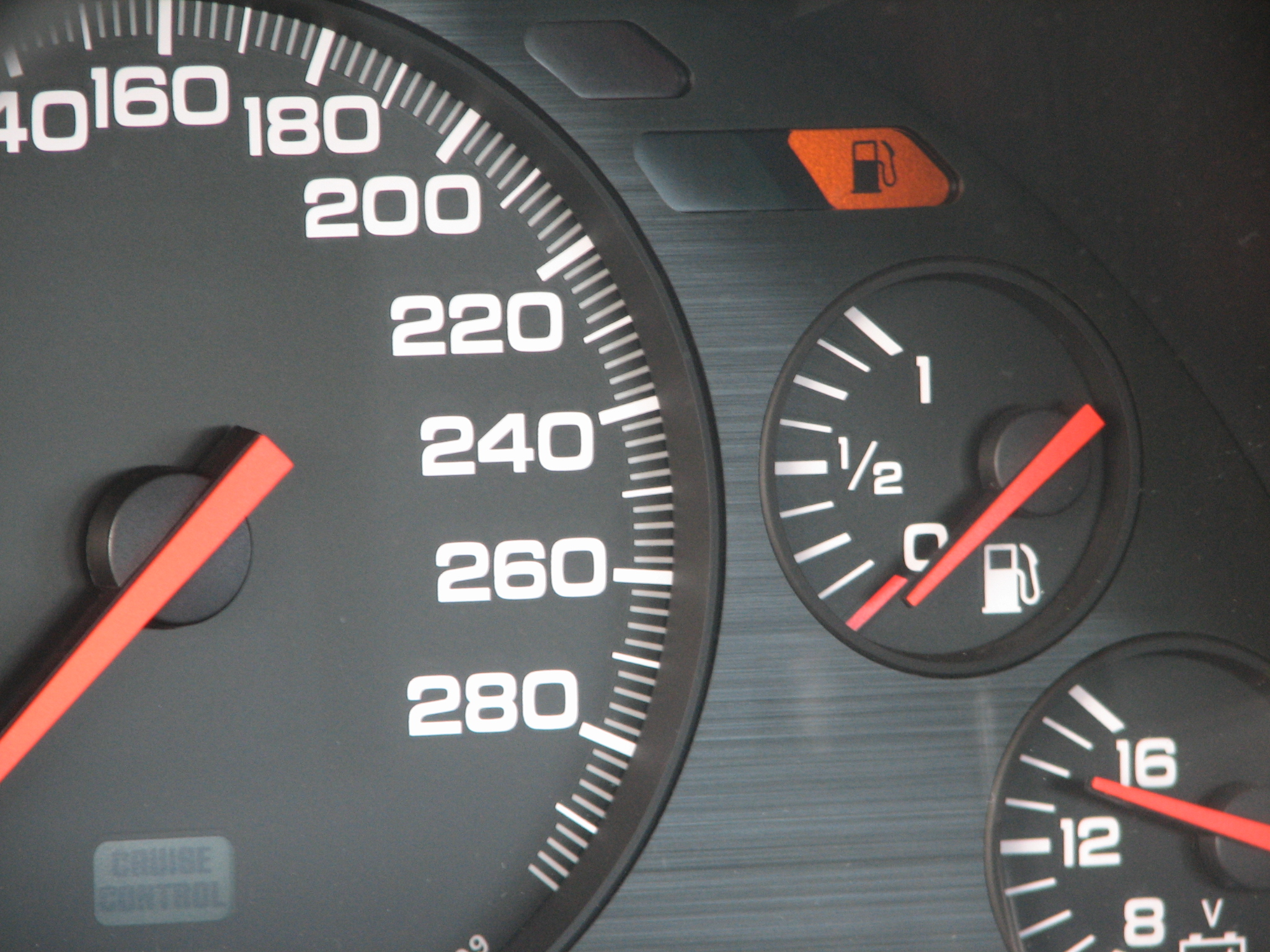 Honda NSX - Dashboard and gauges 280 Km/h but out of fuel!